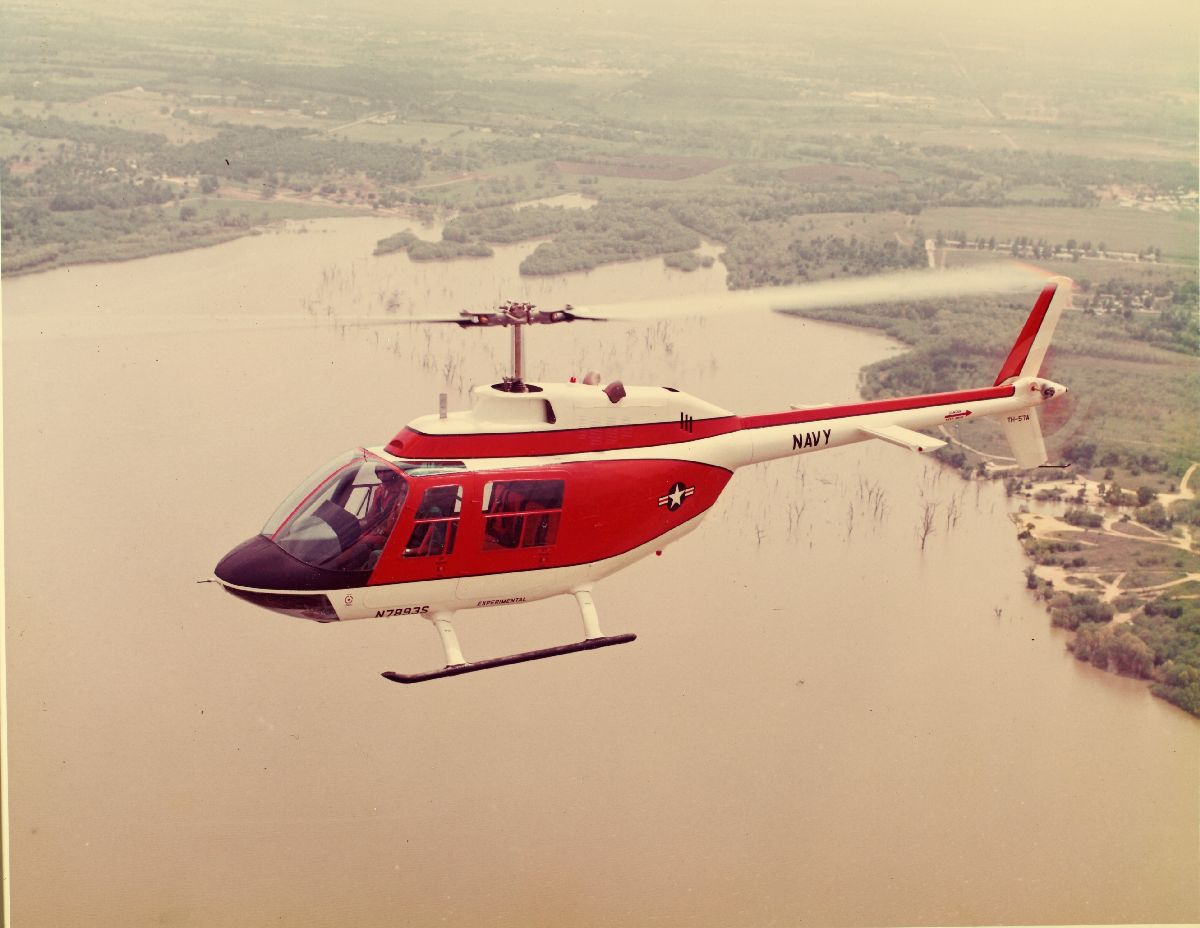 Bell Huey helicopter.